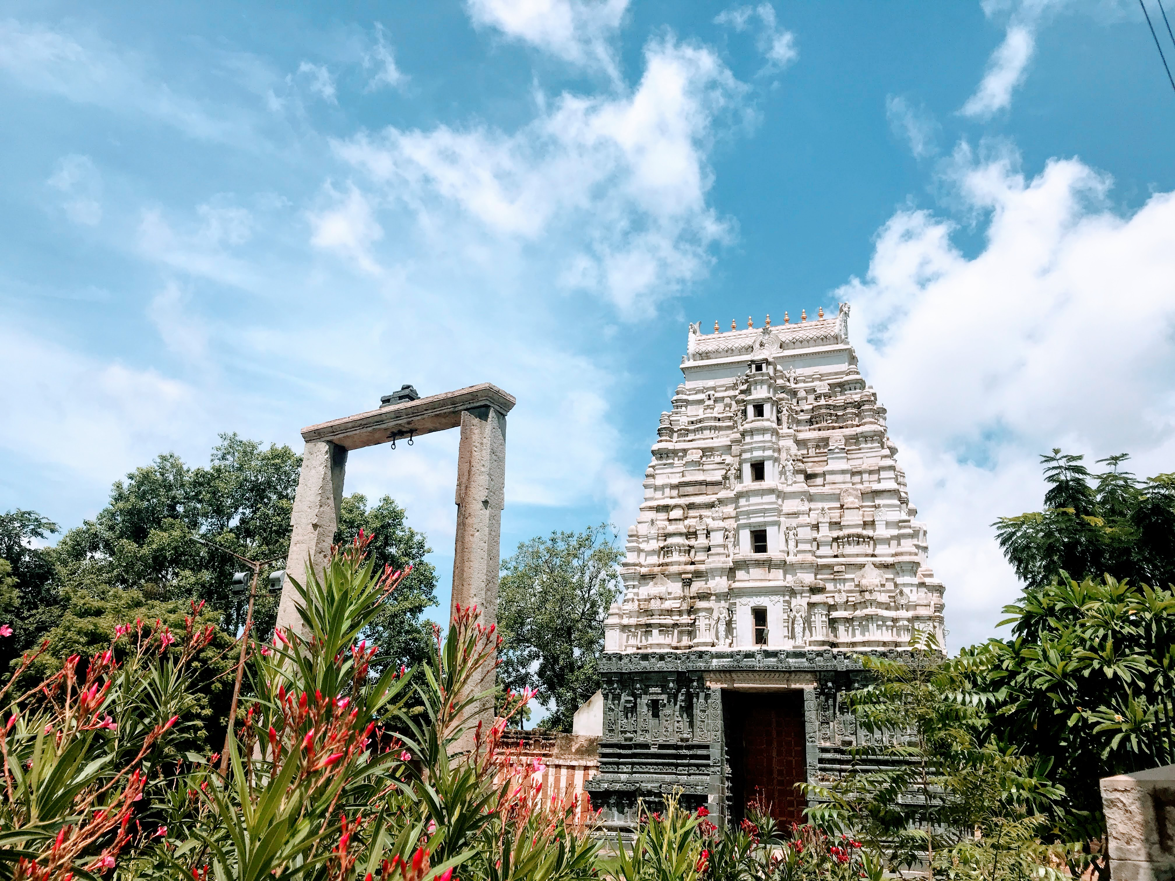 Tadipatri - Sri Chintala Venkataramana Temple. It was closed during covid-19 lockdown.